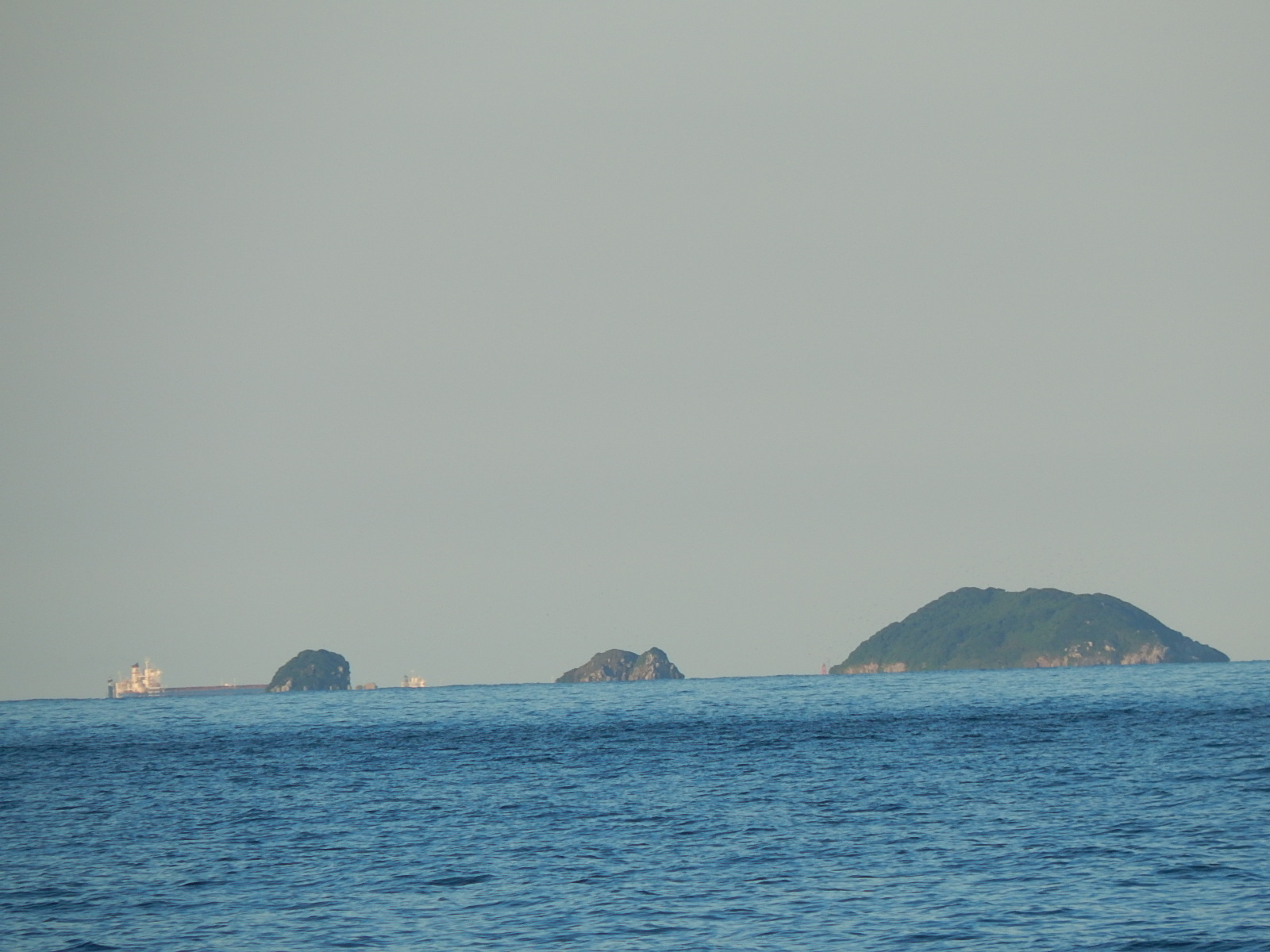 National Marine Park Islands of Currais